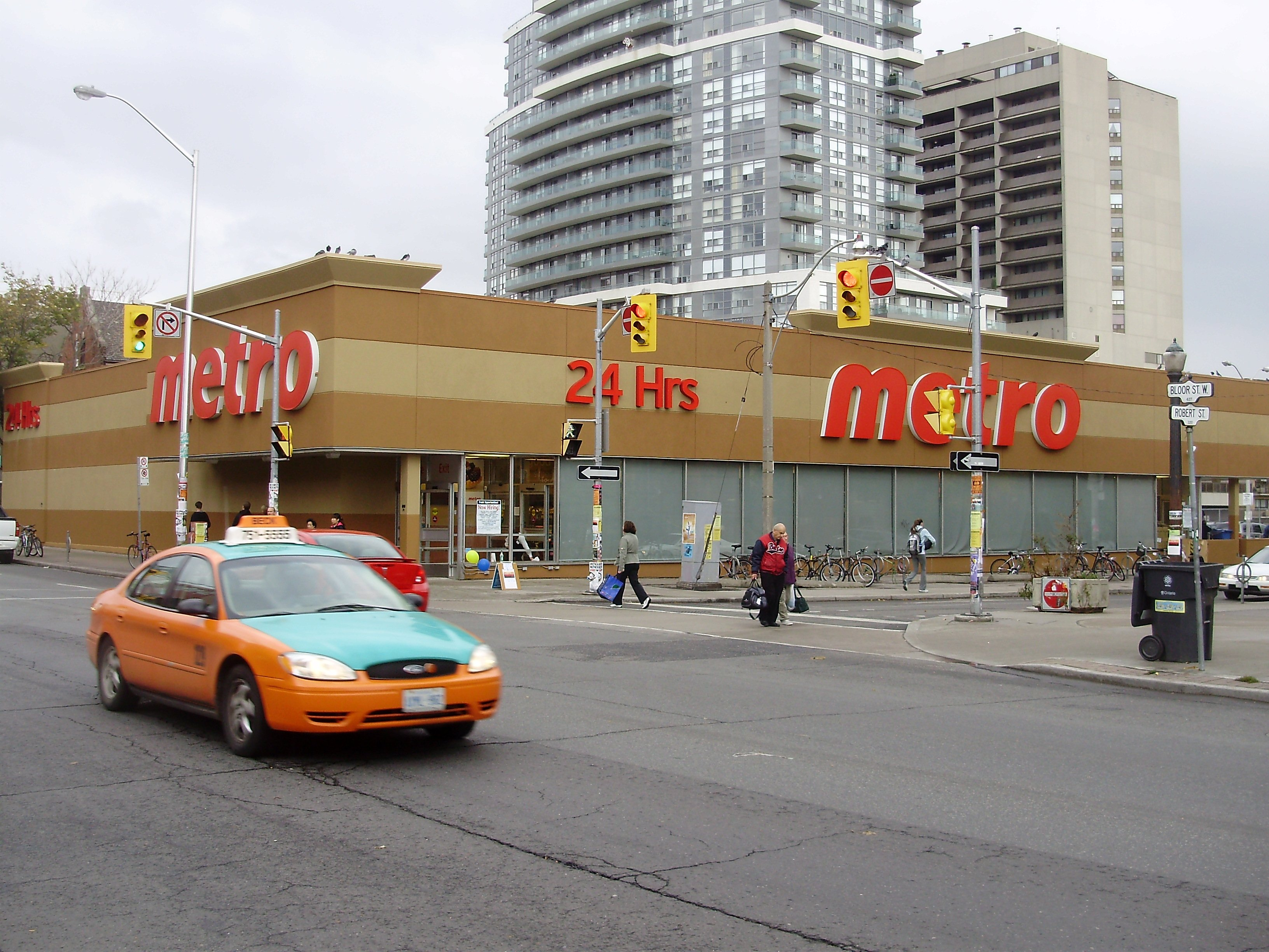 A Metro supermarket, formerly signed as a Dominion store, at the intersection of Bloor Street West and Robert Street in Toronto, Ontario, Canada.